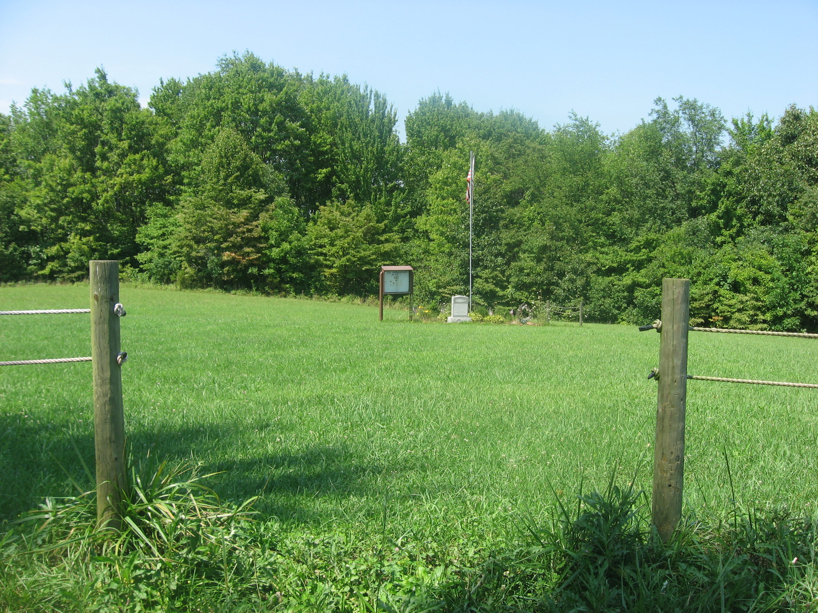 Overview of the first of the three crash sites of USS Shenandoah, a US Navy airship that broke apart over Noble County, Ohio and crashed in pieces in 1925. The site is located on the western side of Township Road 112 (Shenandoah Road) in far southern Buffalo Township, about four miles north of the Interstate 77 interchange at Belle Valley. In 1989, the three crash sites were designated a historic district and listed on the National Register of Historic Places.